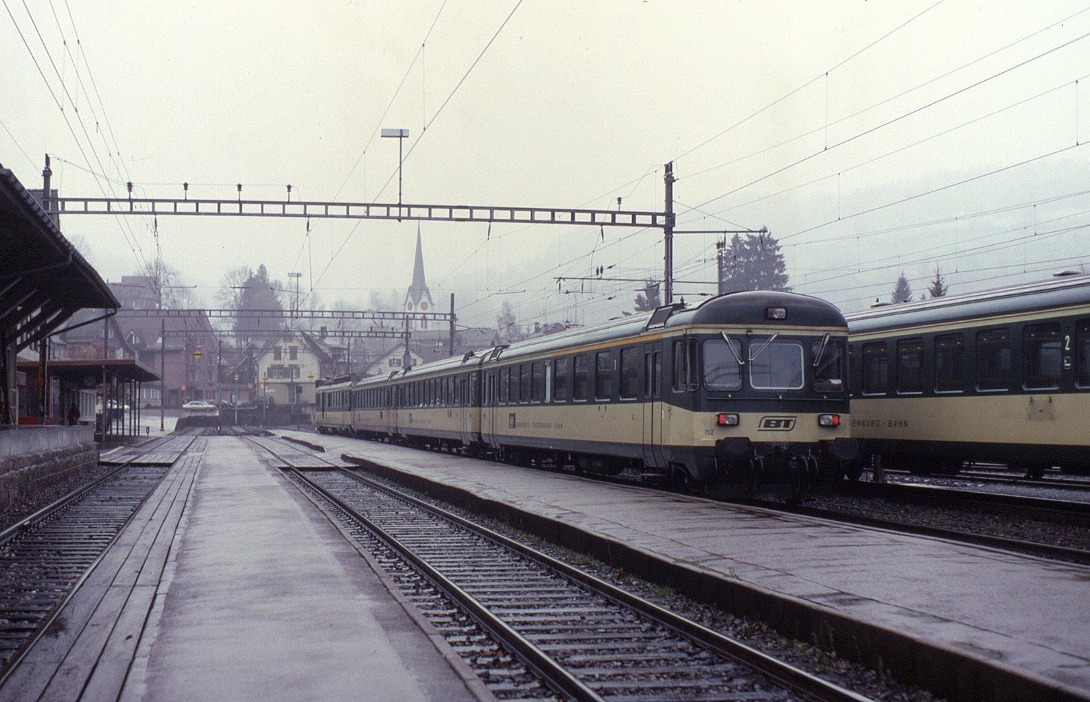 BDe4/4 EMU 576.052 "Krummenau" seen at the branch line terminus of Nesslau-Neu St Johann. At the time of the visit, the services on this branch and line from Rmanshorn to Wattwil was in the hands of the Bodensee–Toggenburg (BT). In 2001, the operator merged with the Südostbahn. Seen on a rather wet 14 November 1998, the unit next turn of duty was train 7161,15:10 Nesslau-Neu St Johann to Wil.